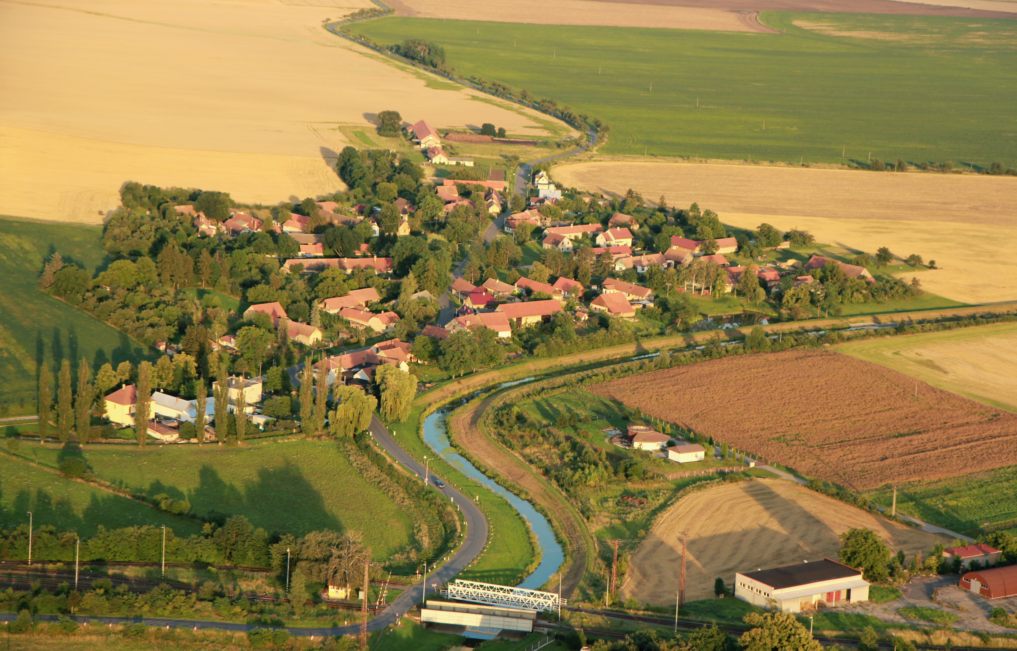 Zábrdovice, part of Křinec village, Czech Republic